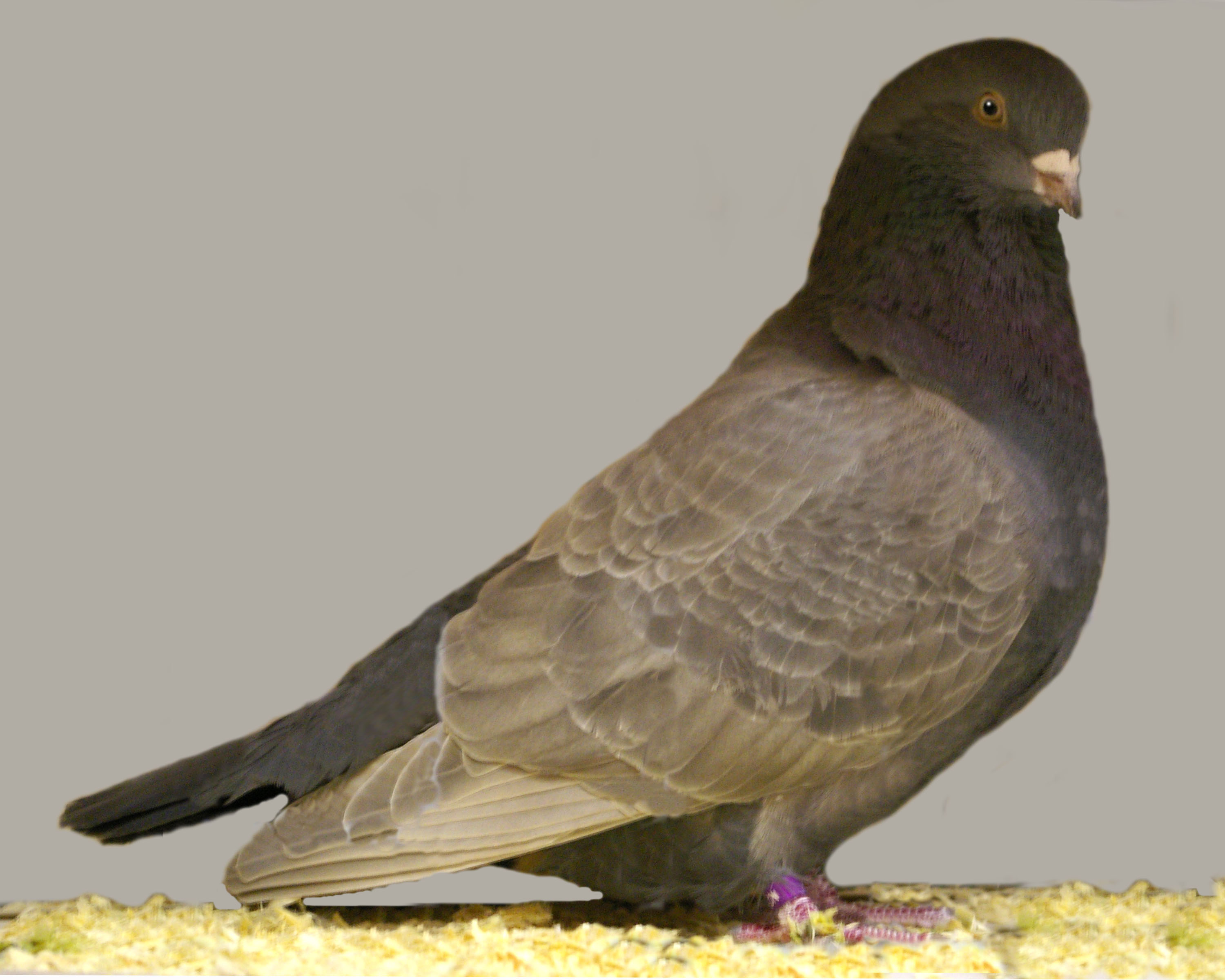 Tippler (Dun Self) scottish flying breeds show, stirling. 10th. nov. '07